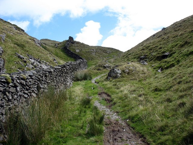 The old drover's road over Bwlch y Rhiwgyr